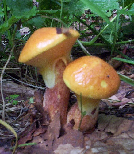 Suillus grevillei in eastern part of Beskid Niski (Carpathian Mountains) near Komańcza, Poland.